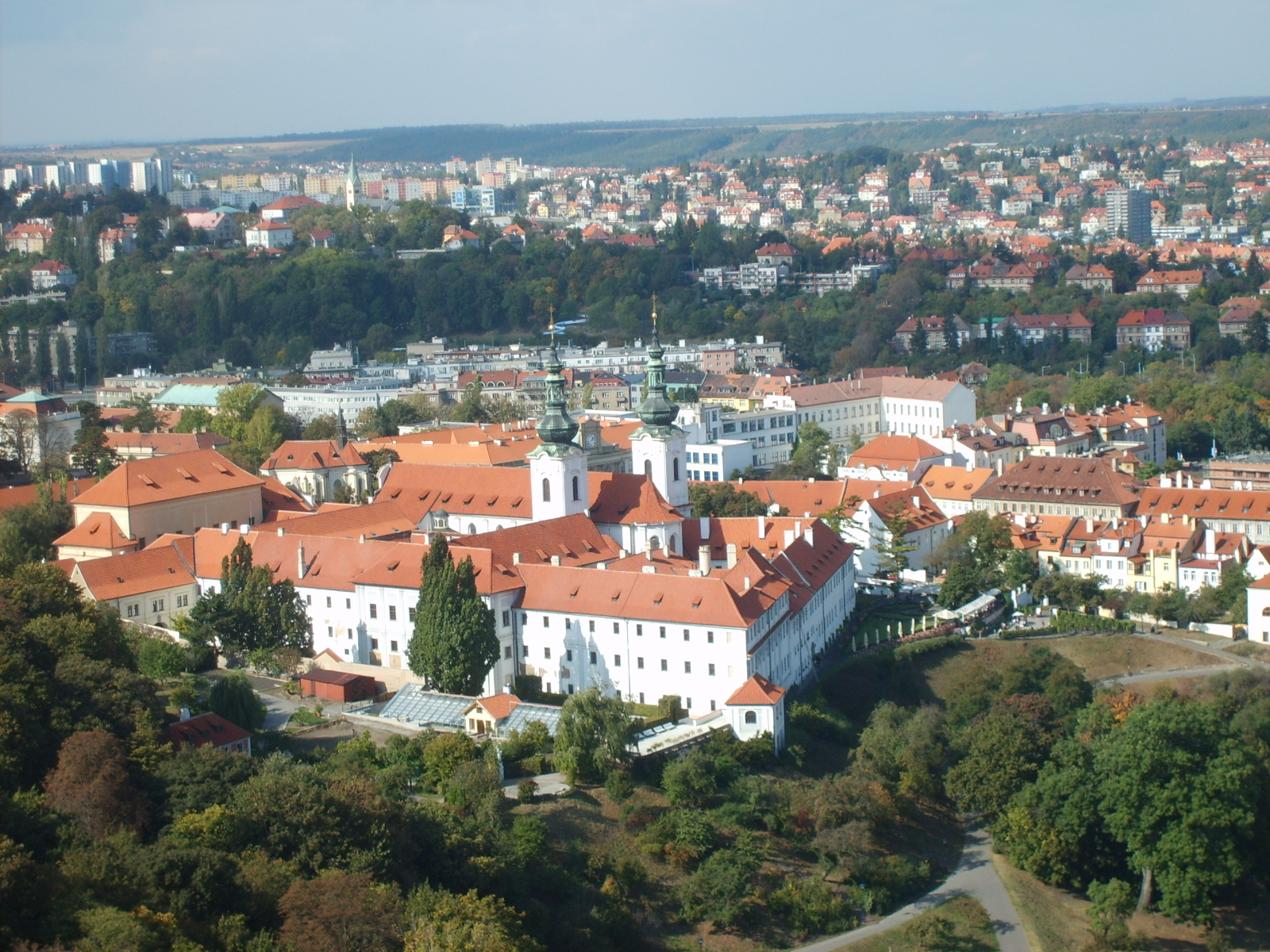 Strahov monastery from Petřín tower.